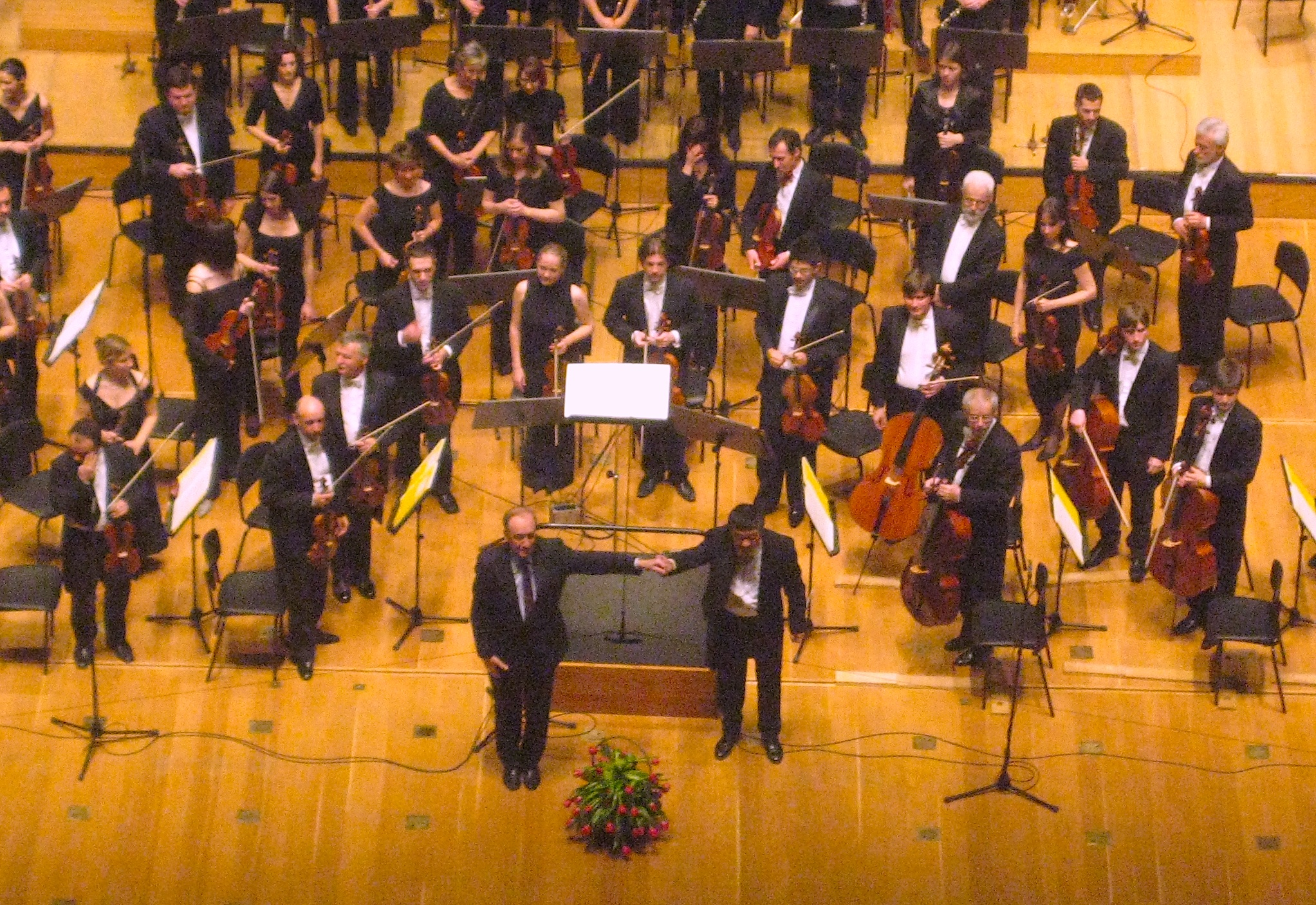 RTV Slovenia Symphony Orchestra with chief conductor En Shao, hosting composer Rodion Shchedrin; March 2009, Ljubljana